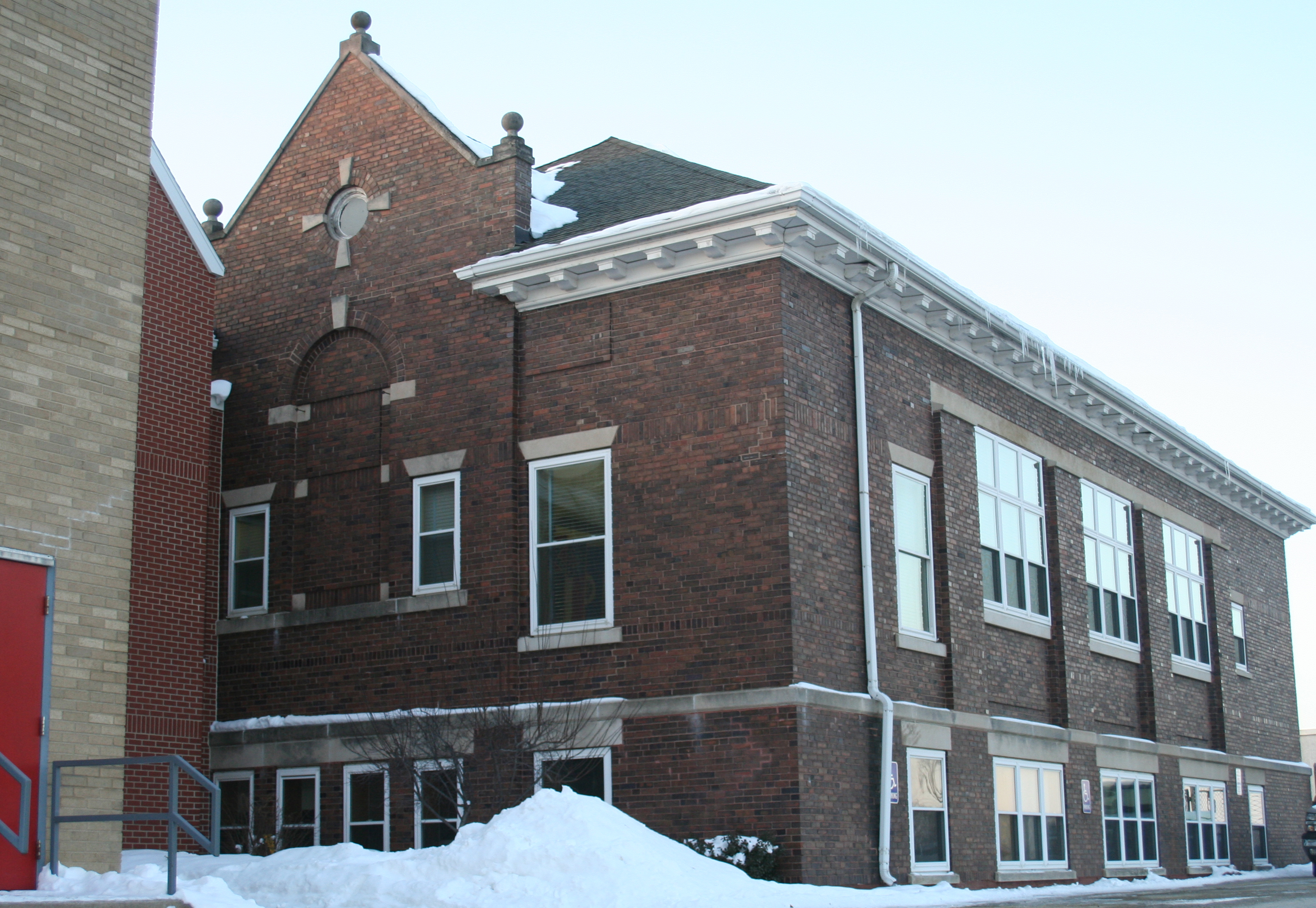 Actually a picture of the east side of Metamora Township High School, dating back to 1915.